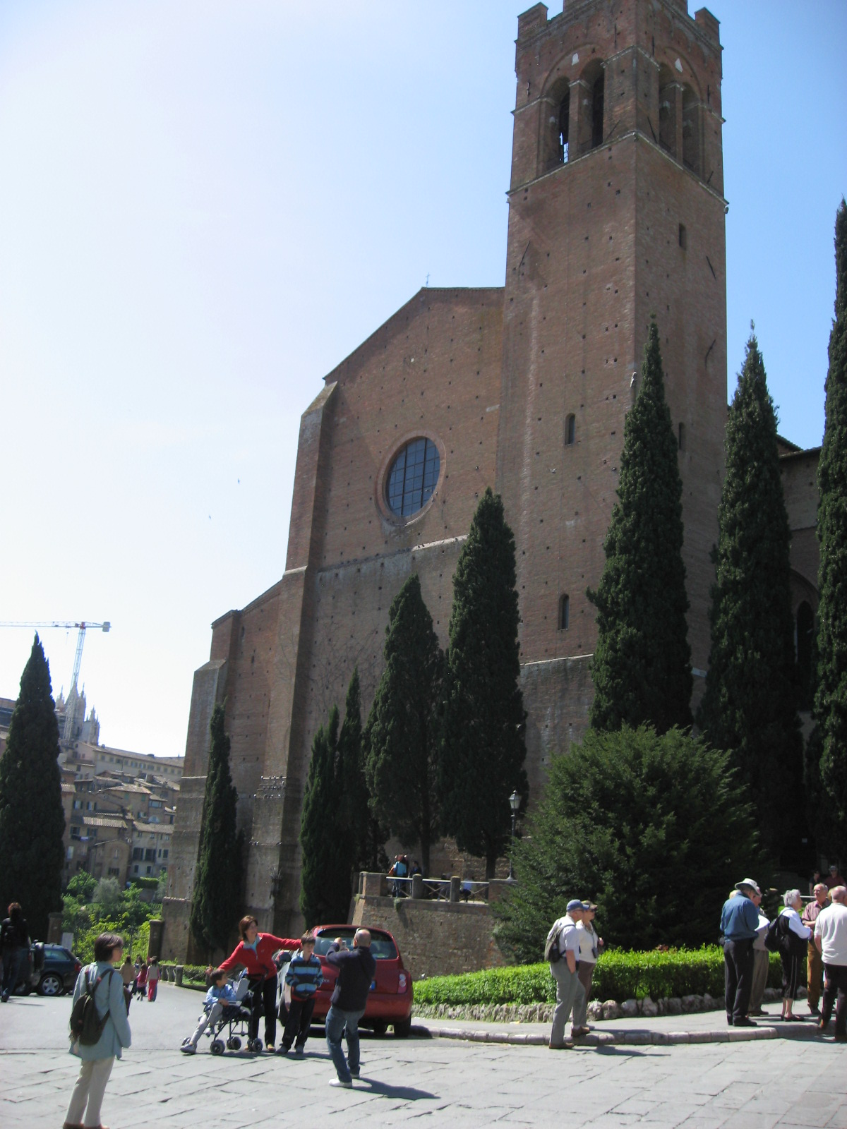 Exterior of the Basilica of San Domenico (Siena).